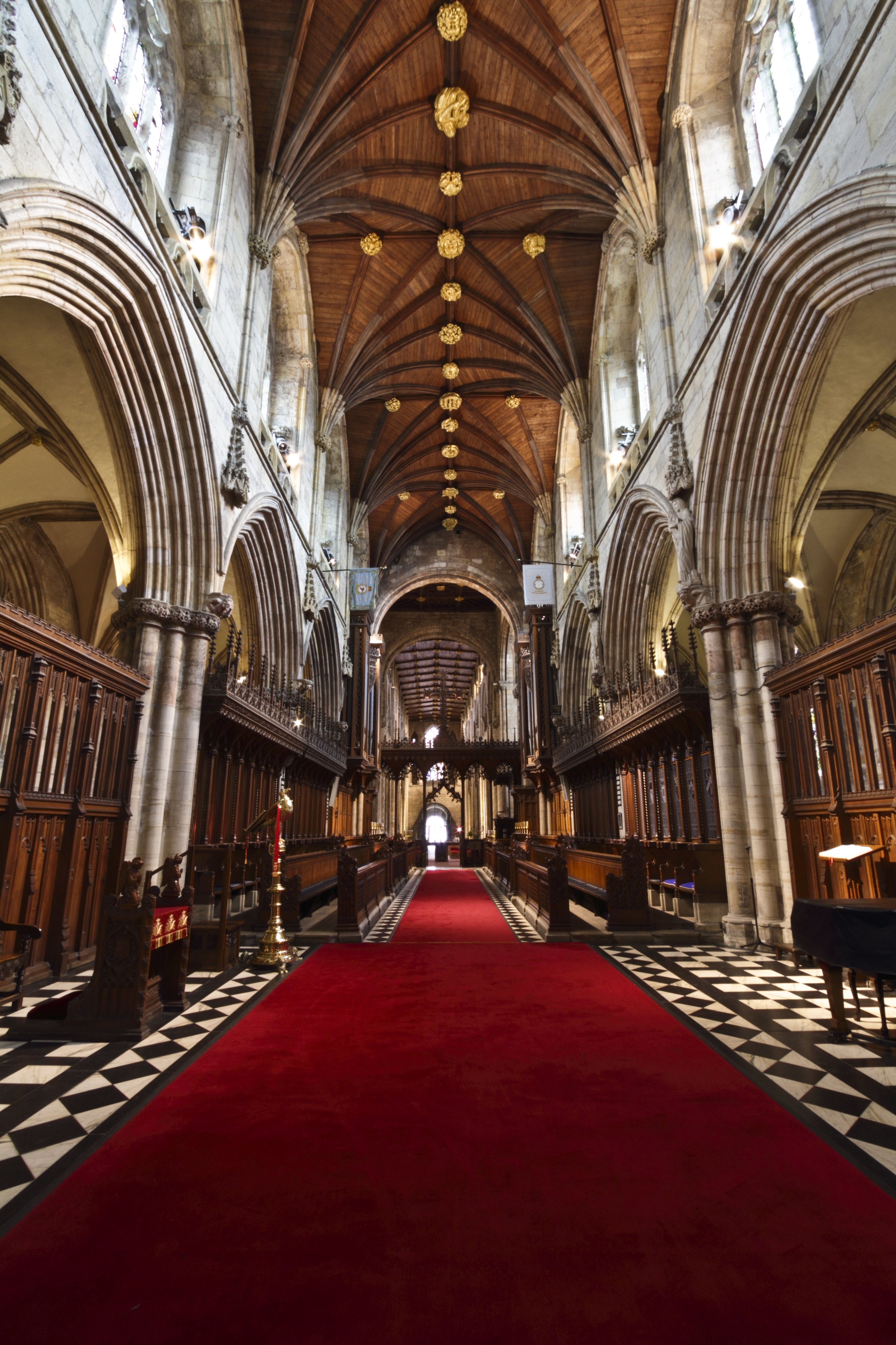 Here is a photograph taken from inside Selby Abbey. Located in Selby, Yorkshire, England, UK. You CAN view and download the full 18megapixel image in Flickr, check out the other sizes when viewing ***